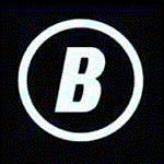 A logo used by The Beacham. The Beacham Theatre in Orlando, Florida.